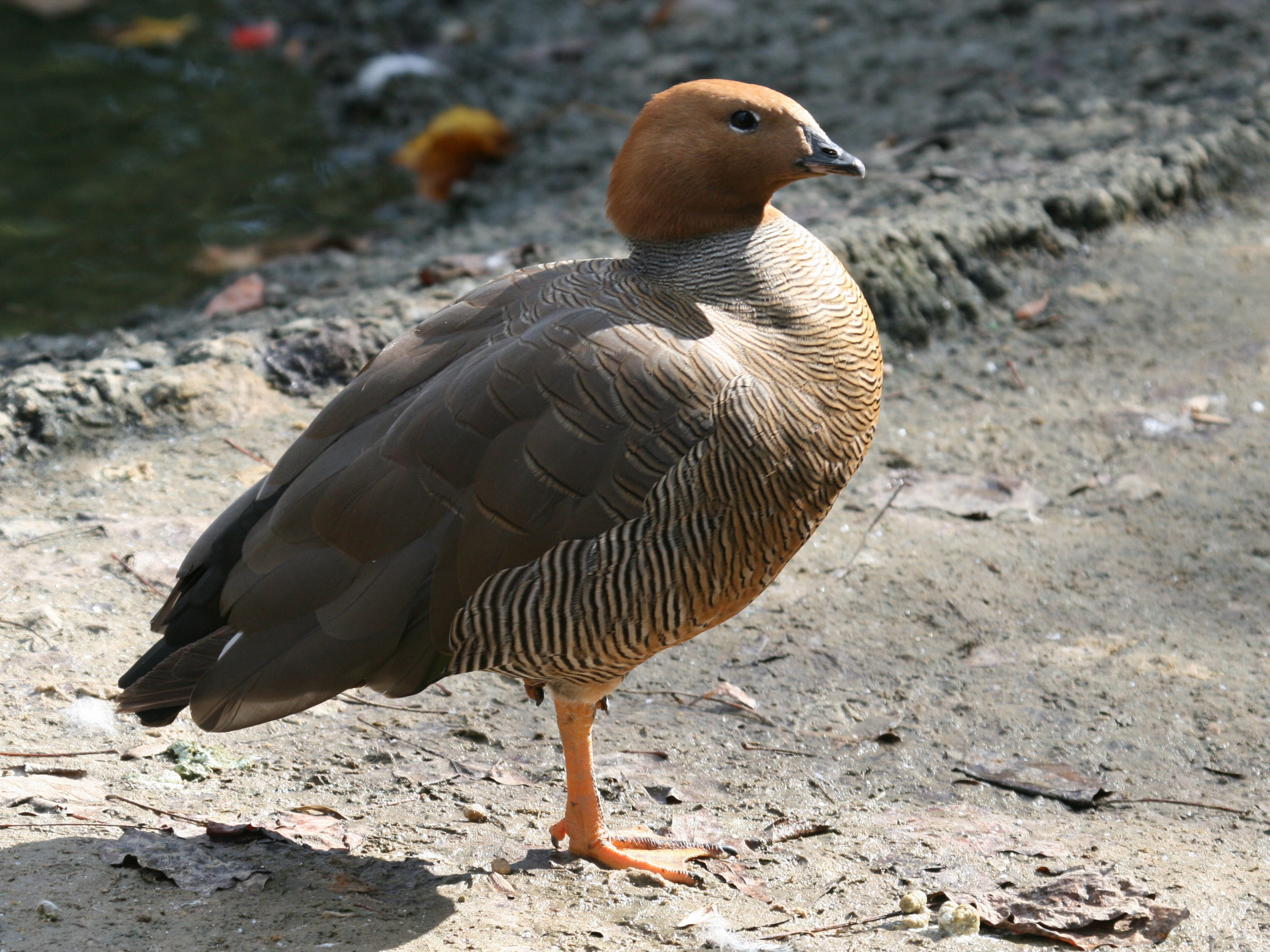 Ruddy-headed Goose (Chloephaga rubidiceps) at Sylvan Heights Waterfowl Park in Scotland Neck, North Carolina.